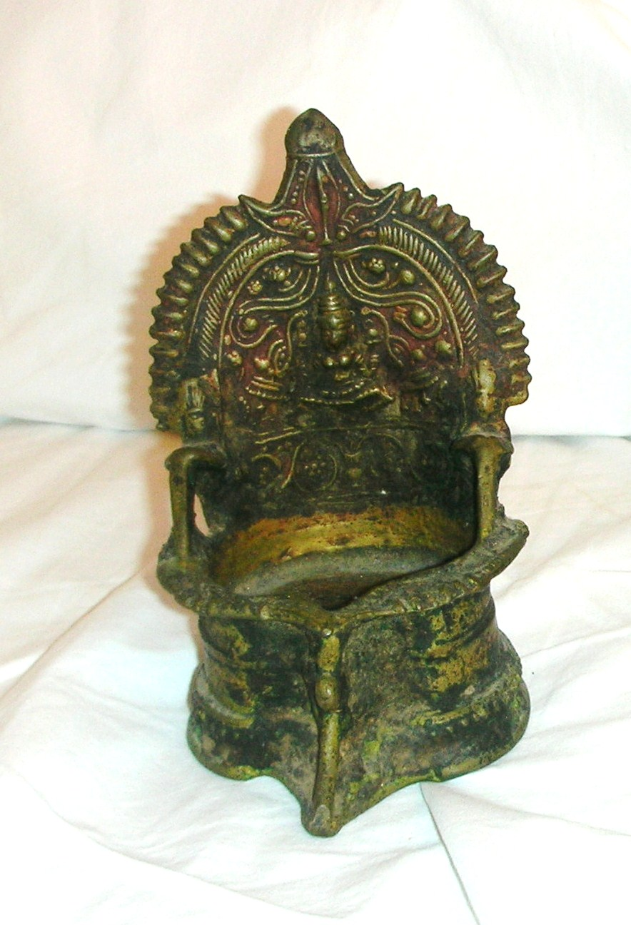 Deepalakshmi, an oil lamp used as a temple offering in Tamil Nadu and Kerala